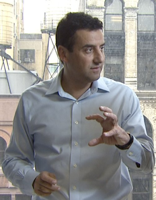 Gérard Benarous